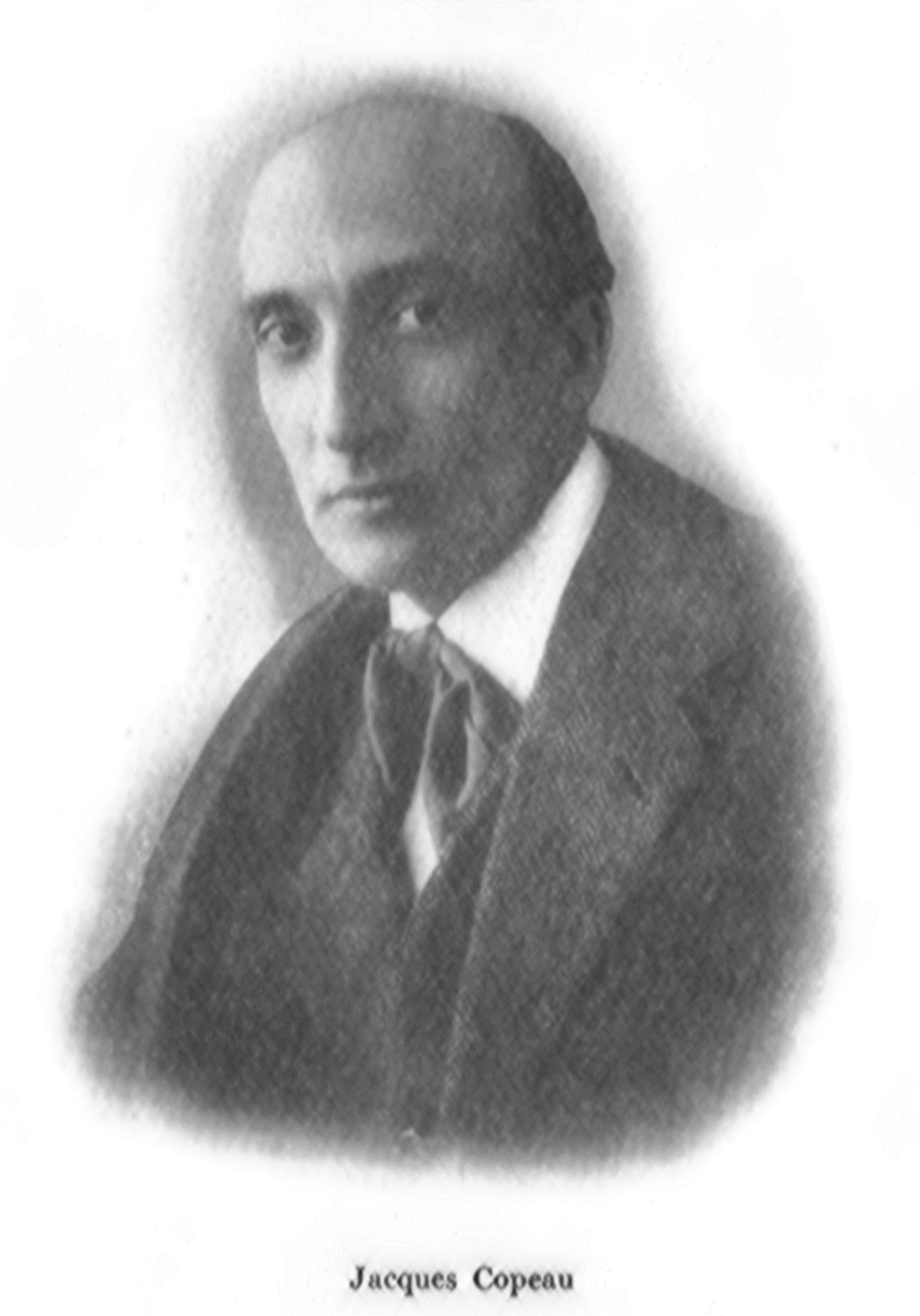 Jacques Copeau (February 4, 1879, Paris – October 20, 1949) was an influential French theatre director, producer, actor, and dramatist.